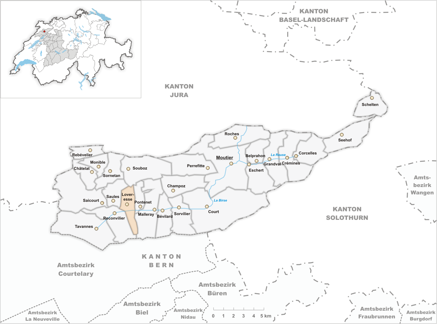 Municipality Loveresse